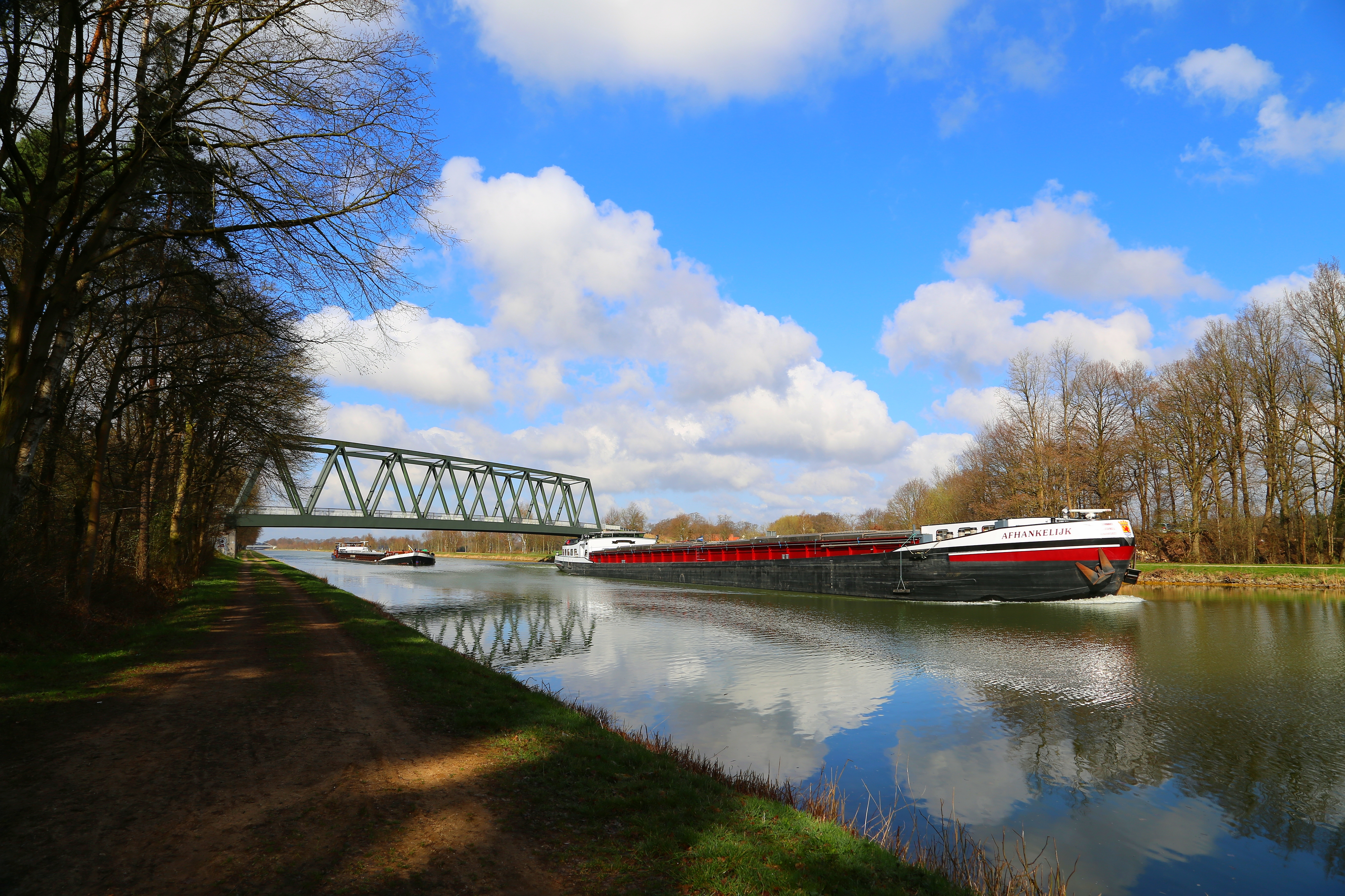 The vessels Afhankelijk (right) and King Loui (left) on the Mittelland Canal (Mittellandkanal) in Recke, Kreis Steinfurt, North Rhine-Westphalia, Germany.